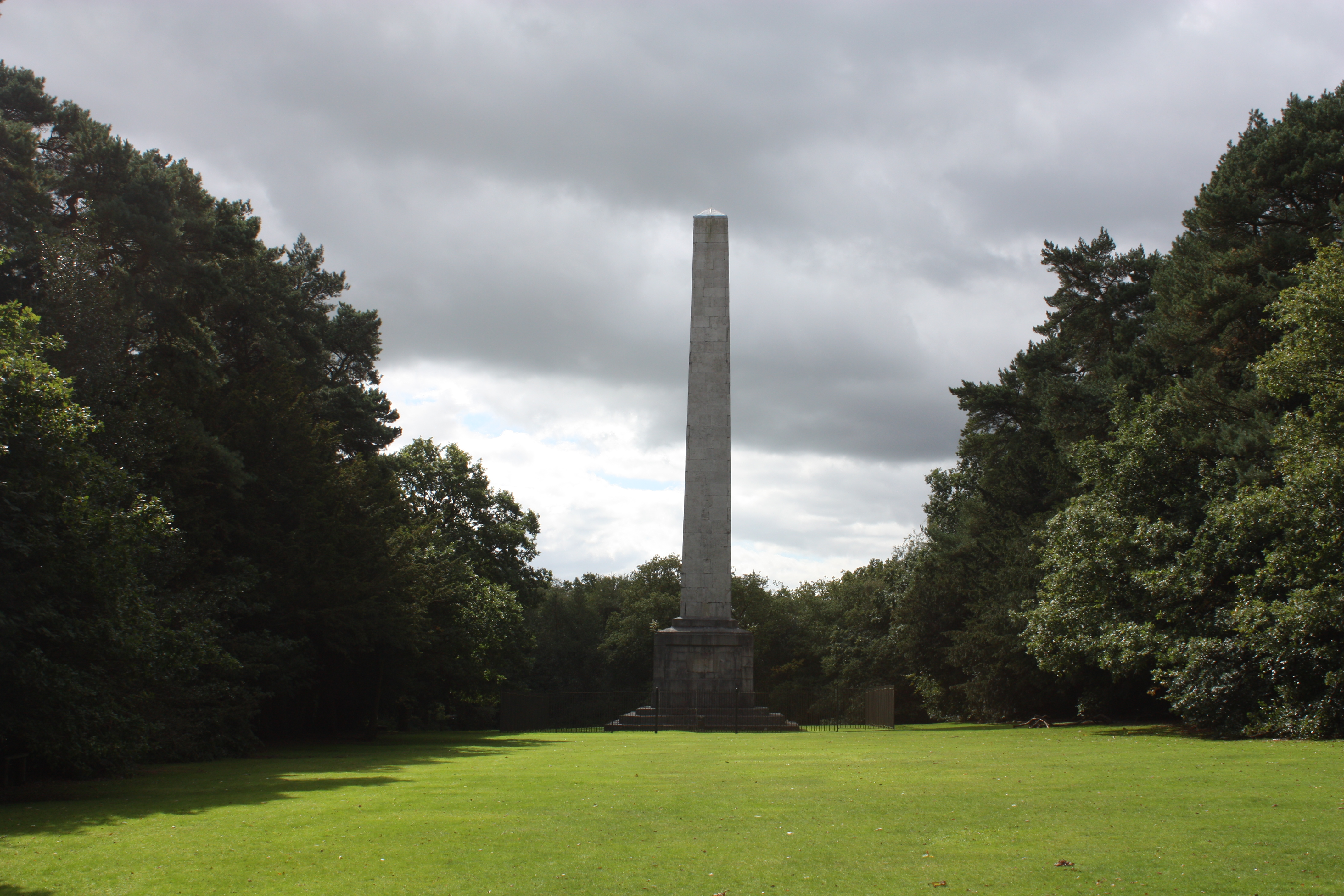 The obelisk erected in dedication to Other Windsor, 6th Earl of Plymouth by the Worcestershire Regiment of Yeomanry Cavalry in gratitude for his service as Colonel Commandant.